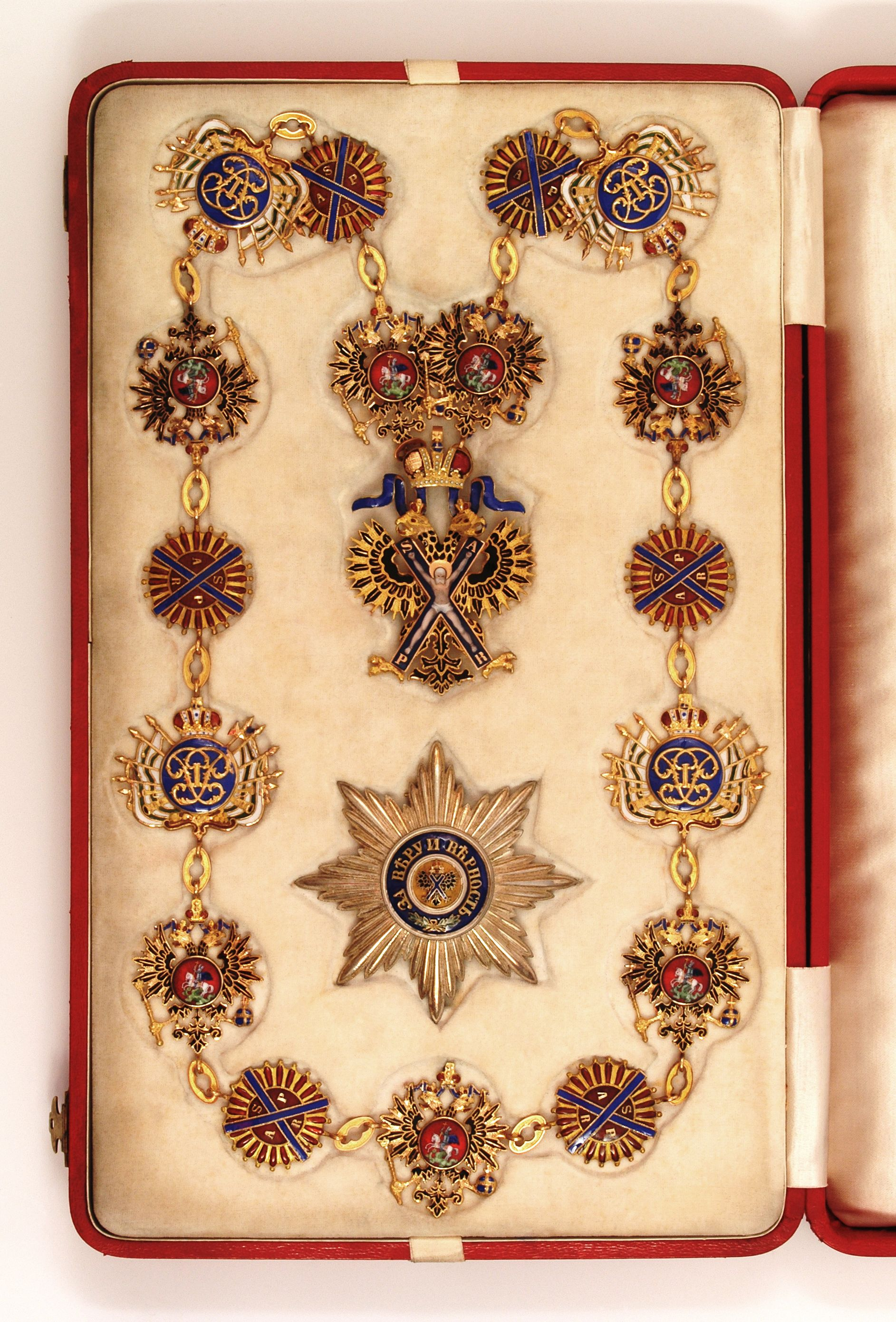 The Order of St. Andrew the First-Called